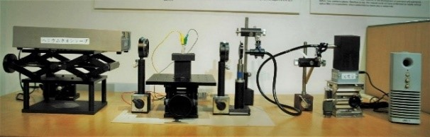 Replica of the earliest demonstration of optical fiber communication experiment, in May 26, 1963, restored in 2008-7. (Registered as Future Technology Heritage, at the National Museum of Science, Japan). By courtesy of the Museum of Tokyo Institute of Technology.